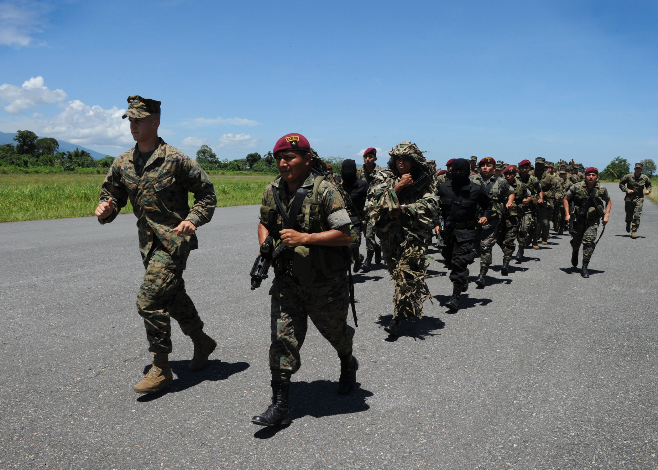 PUERTO BARRIOS, Guatemala (Sept. 6, 2010) Marines embarked aboard the multi-purpose amphibious assault ship USS Iwo Jima (LHD 7) train with Guatemala Kaibil Special Forces in Puerto Barrios, Guatemala, to strengthen military ties between the two nations. Iwo Jima is anchored off the coast of Guatemala supporting Continuing Promise 2010. The assigned medical and engineering staff embarked aboard Iwo Jima are working with partner nations to provide medical, dental, veterinary and engineering assistance to eight different nations to improve mutual understanding of current medical issues. (U.S. Navy photo by Mass Communication Specialist 2nd Class Bryan Weyers/Released)